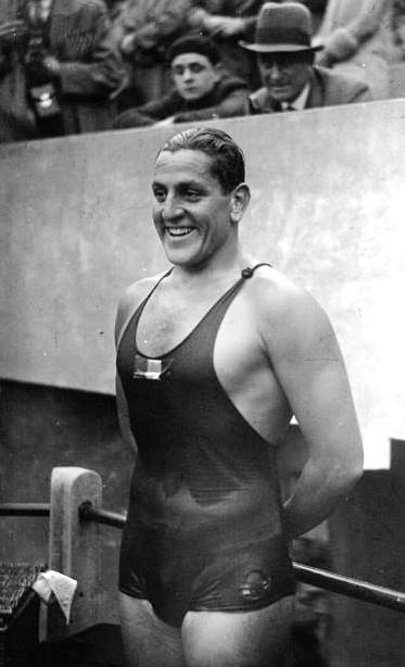 Picture of Paolo Costoli